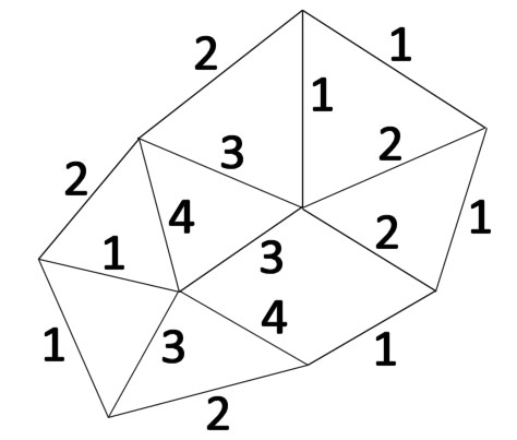 Spin network